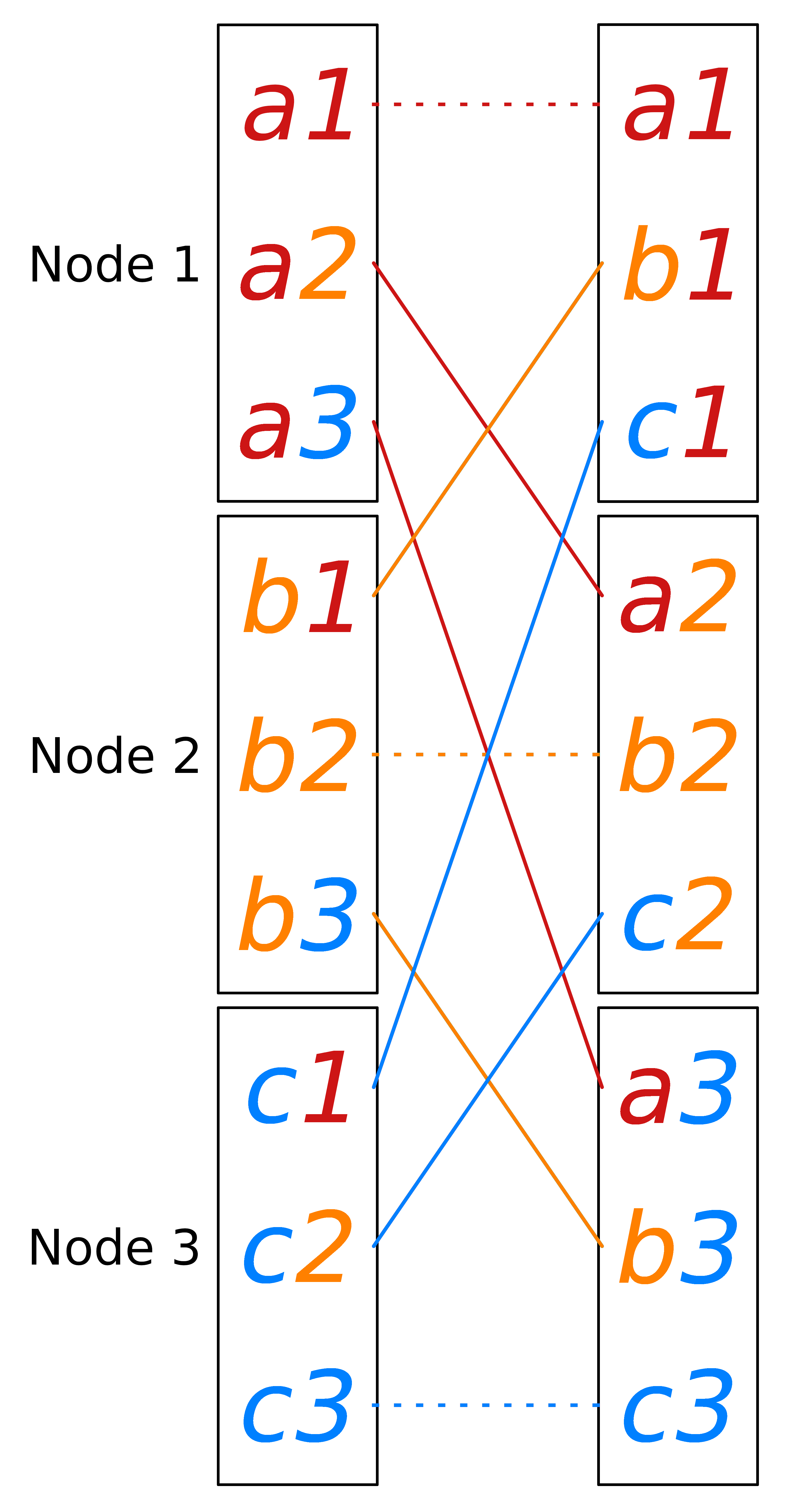 Each node has three data items. Nodes are identified by letters and items by numbers. The data items are distributed, so that each node collects items, that correspond to their node id, from the other nodes.